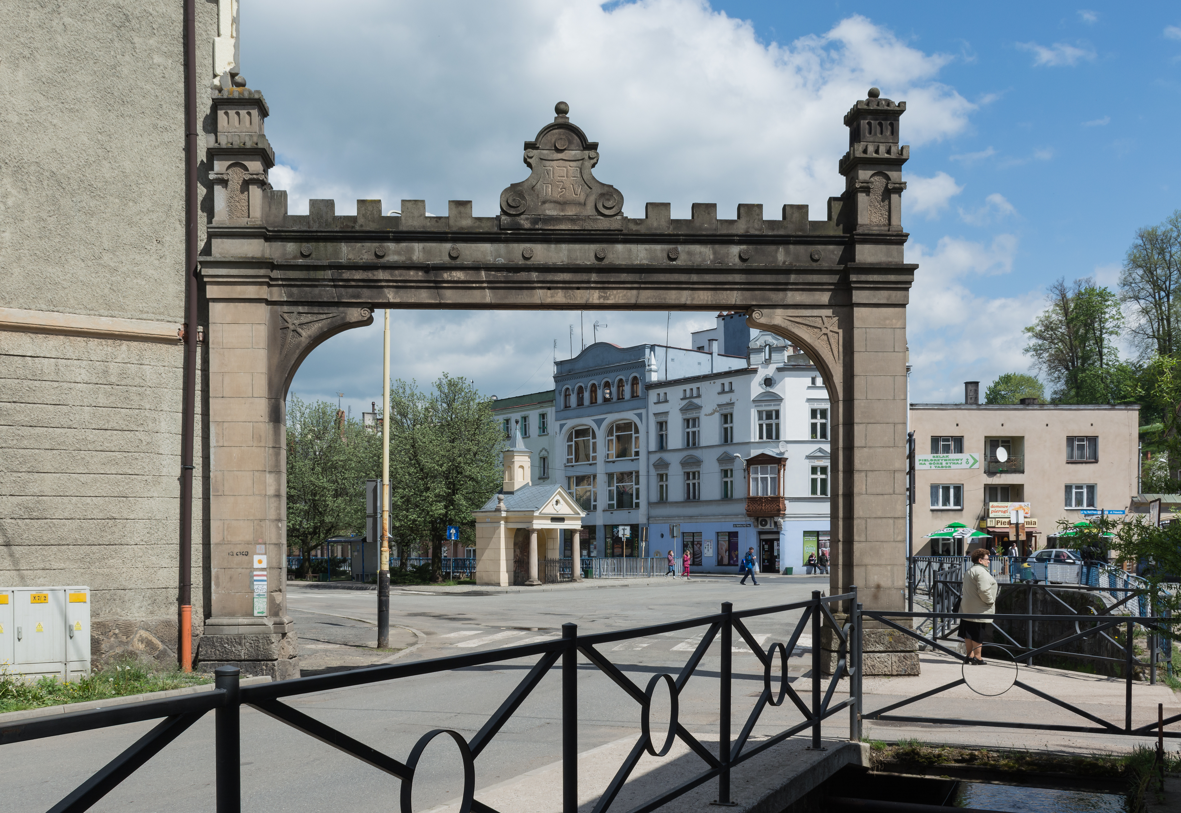 Gate of Jerusalem in Wambierzyce